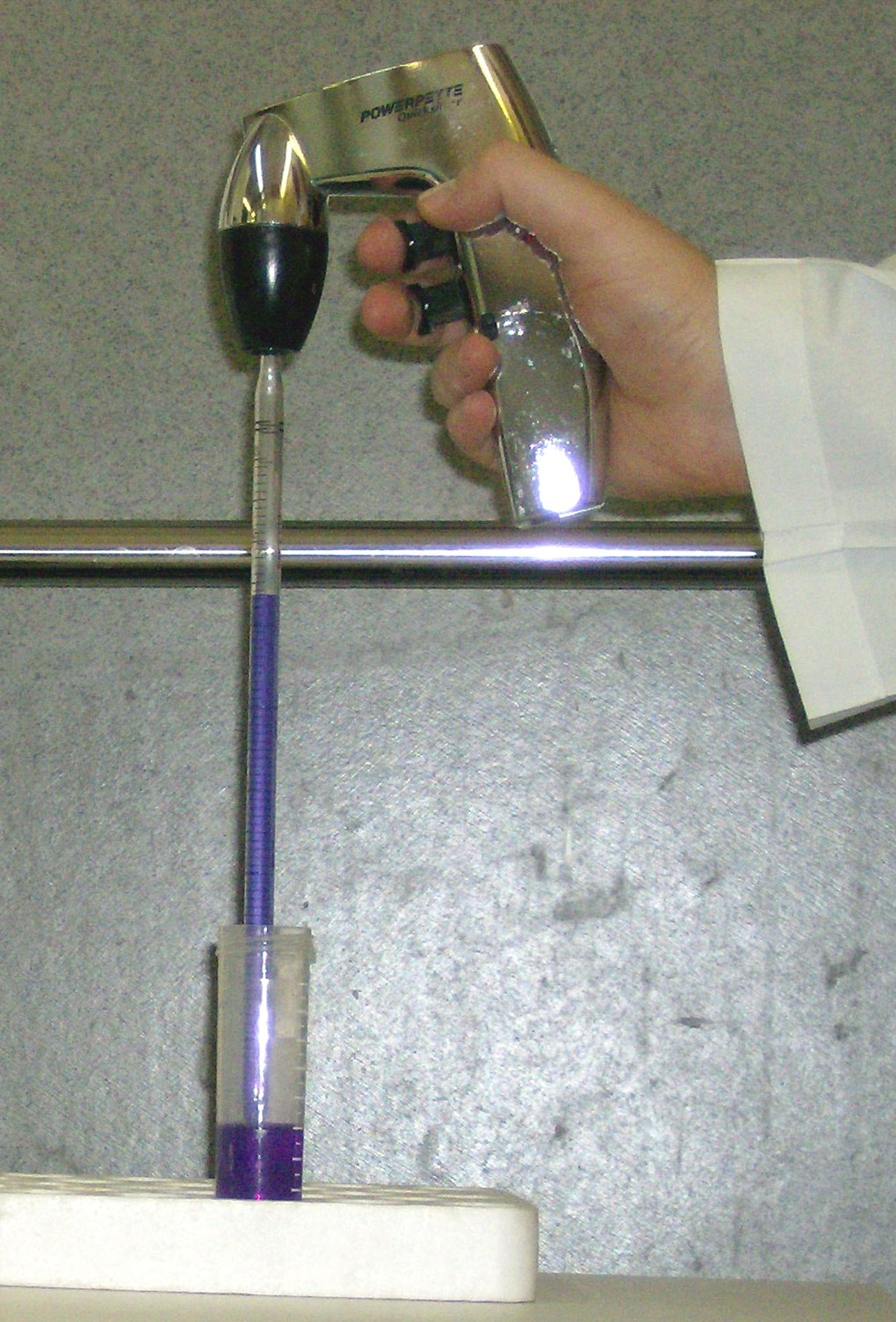 An electronic pipette peaking a solution containing Bromophenol blue